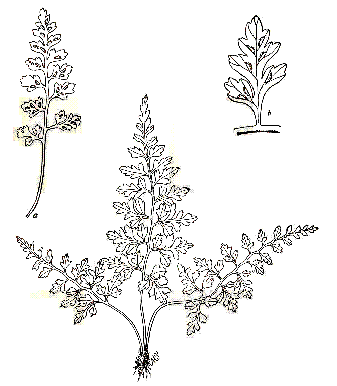 Asplenium montanum illustration from this book, one of the most reprinted fern guides in history. This particular illustration is by Marion Satterlee.